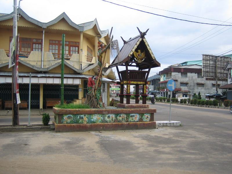 Ketapang city, a small city located in West Kalimantan Province, Indonesia. Ketapang